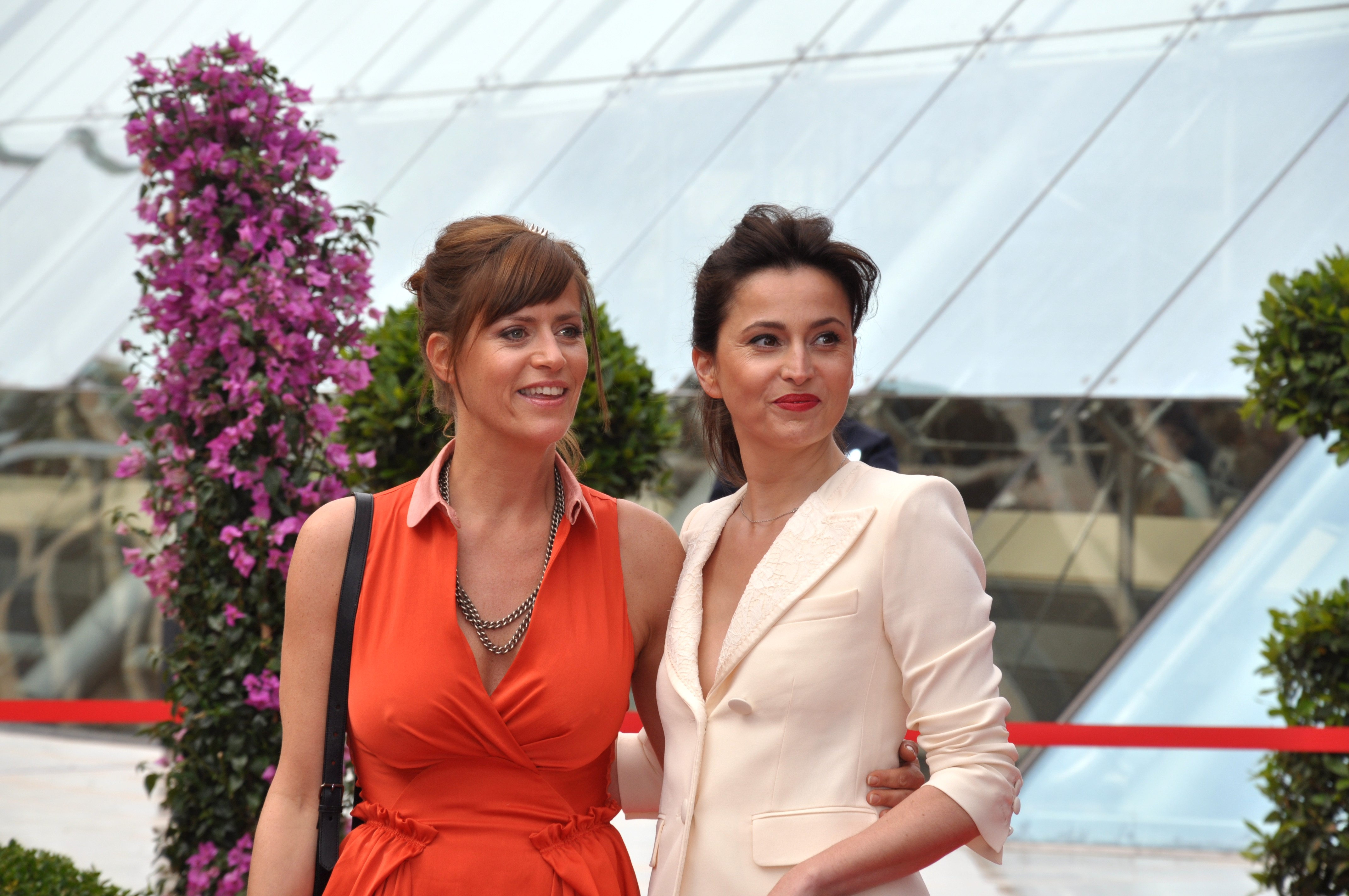 Anne Caillon and Anne Charrier at the 2013 Monte-Carlo Television Festival.